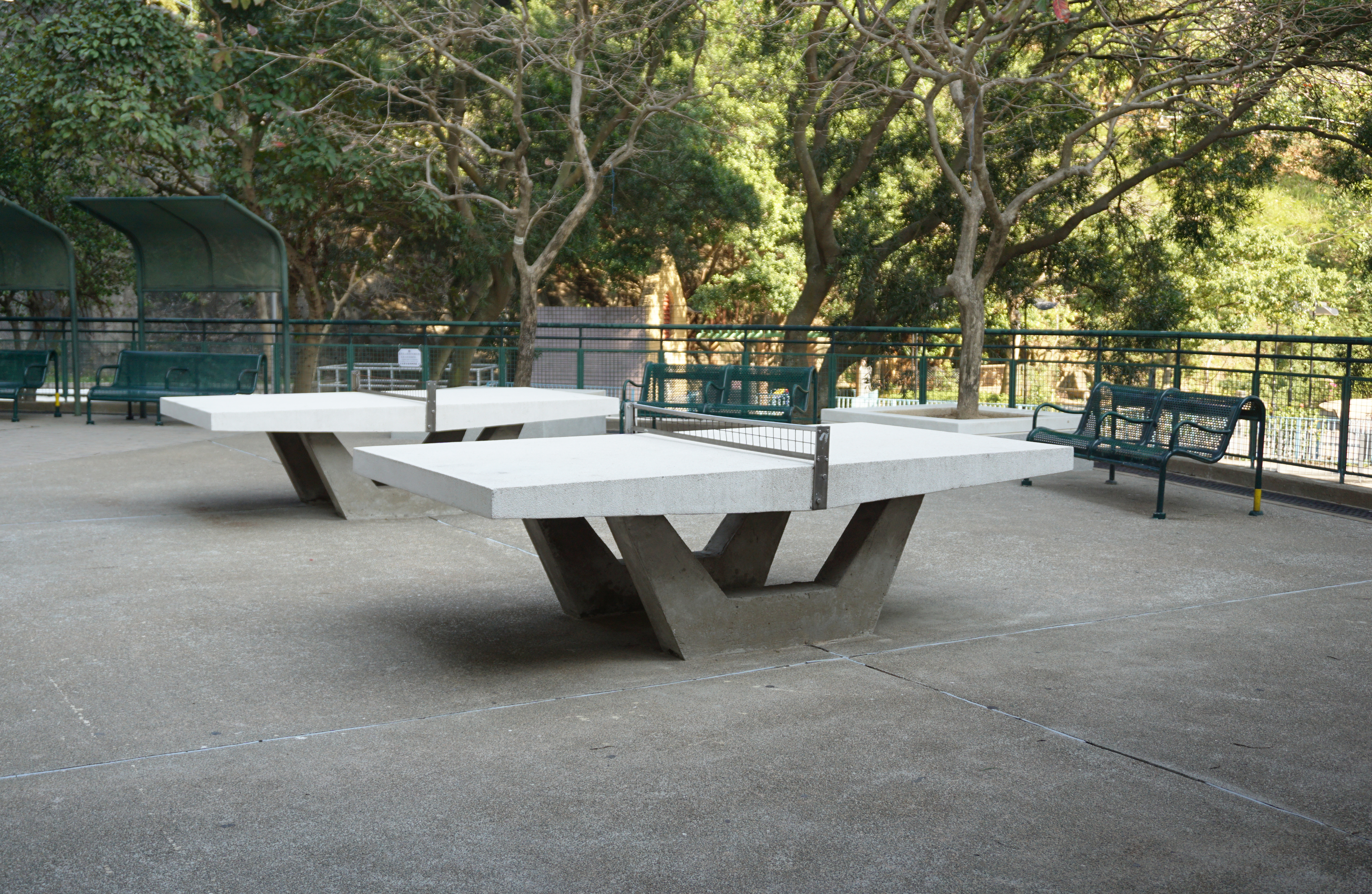 On Yam Estate in Shek Yam, Hong Kong.